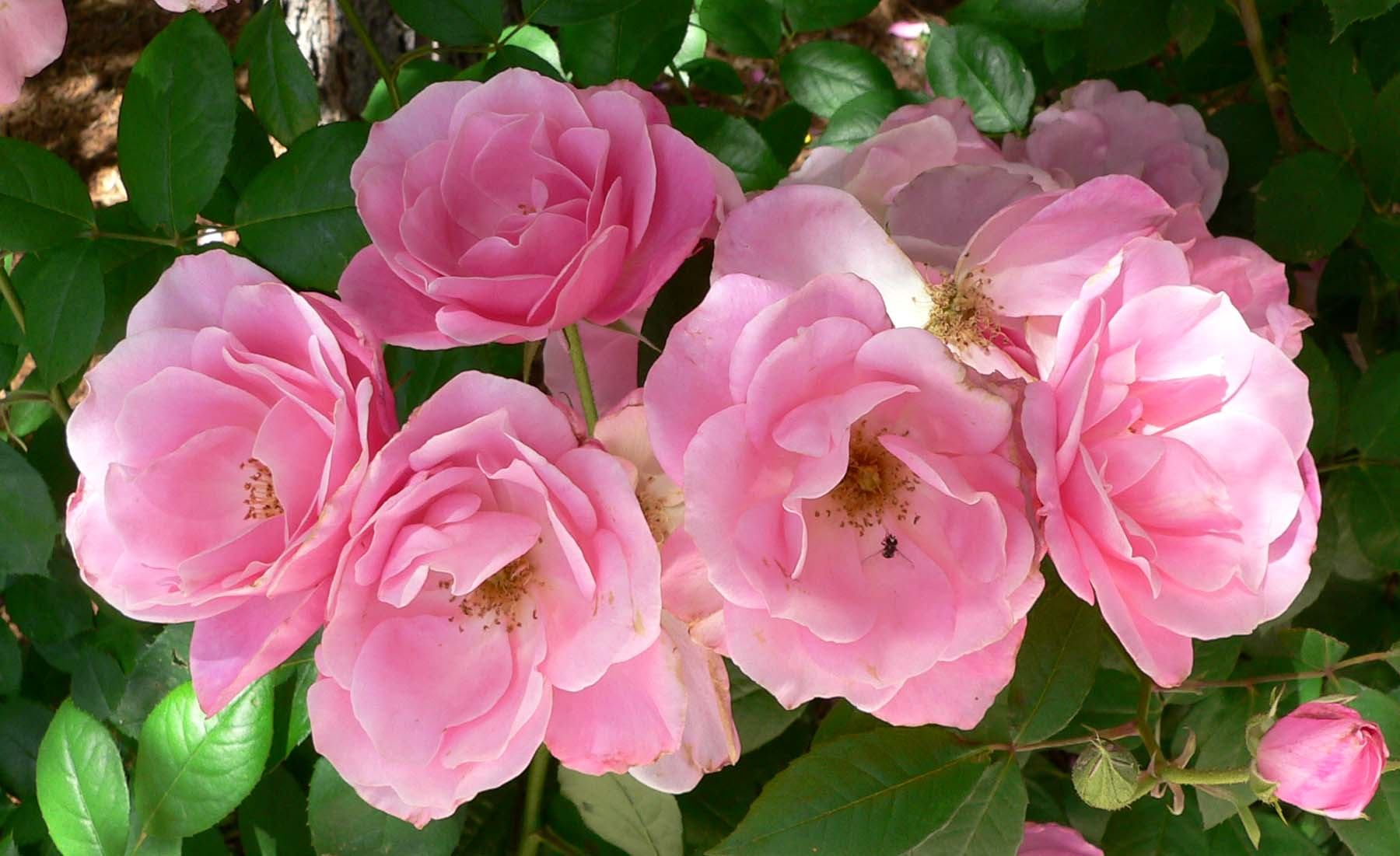 Photo of Rosa 'Simplicity' cluster at the Desert Demonstration Garden in Las Vegas, Nevada